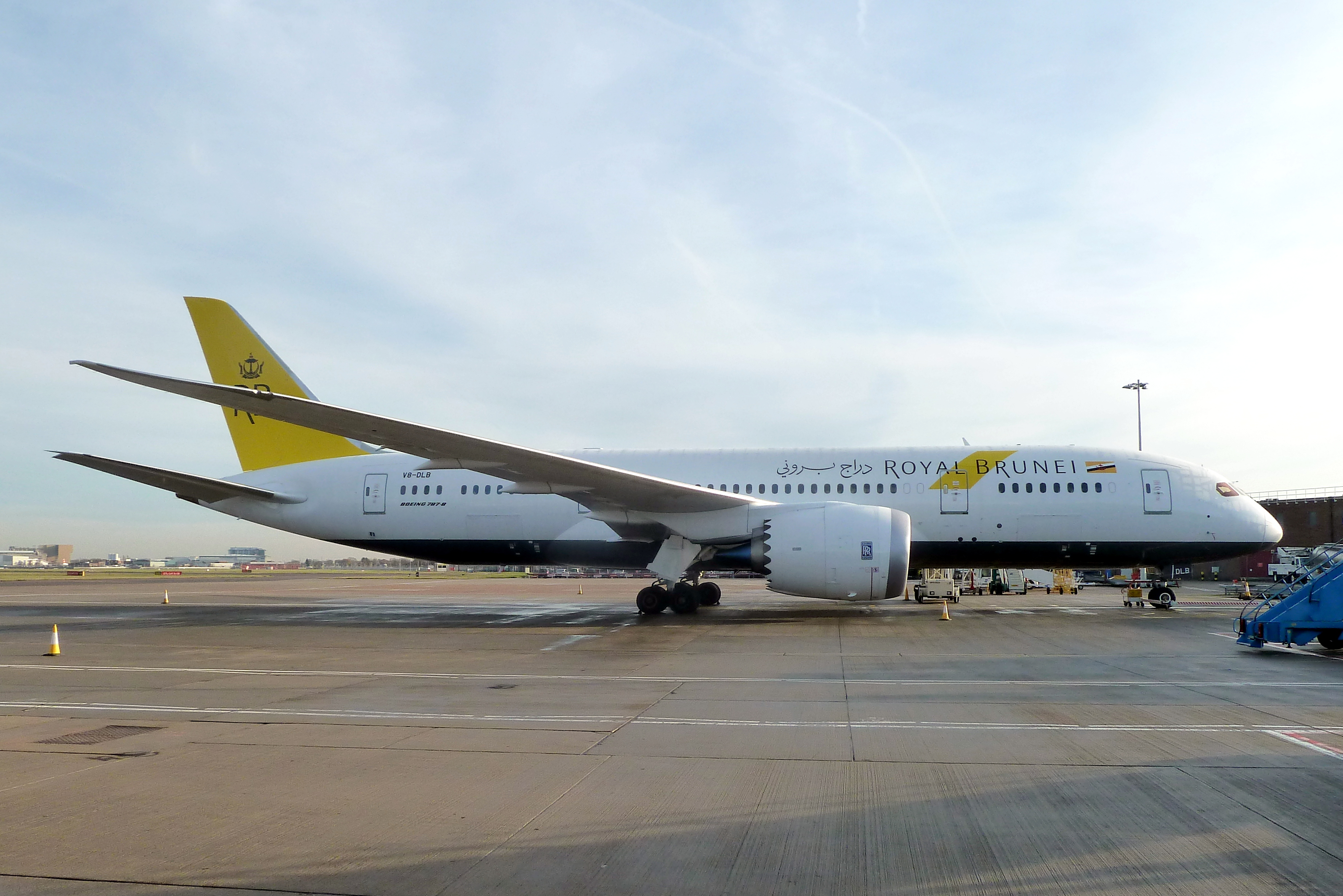 V8-DLB Boeing 787 Royal Brunei Airlines on std 431 very dissapointed in this scheme think the old one would look much better on this aircraft..